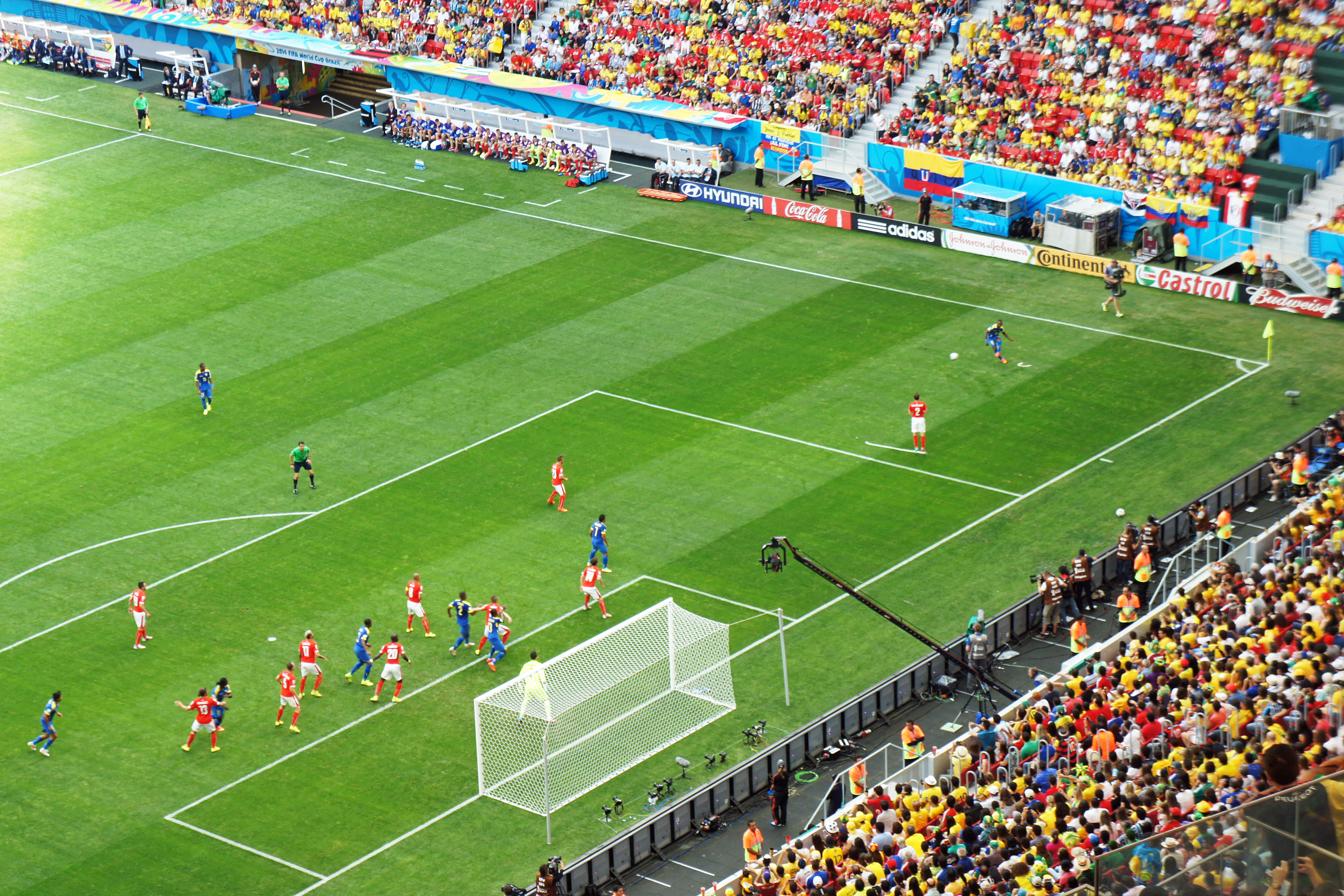 Switzerland and Ecuador match at the 2014 FIFA World Cup , Estádio Nacional Mané Garrincha, Brasilia. The shown free kick is followed by Ecuadorian first and only goal during the match.